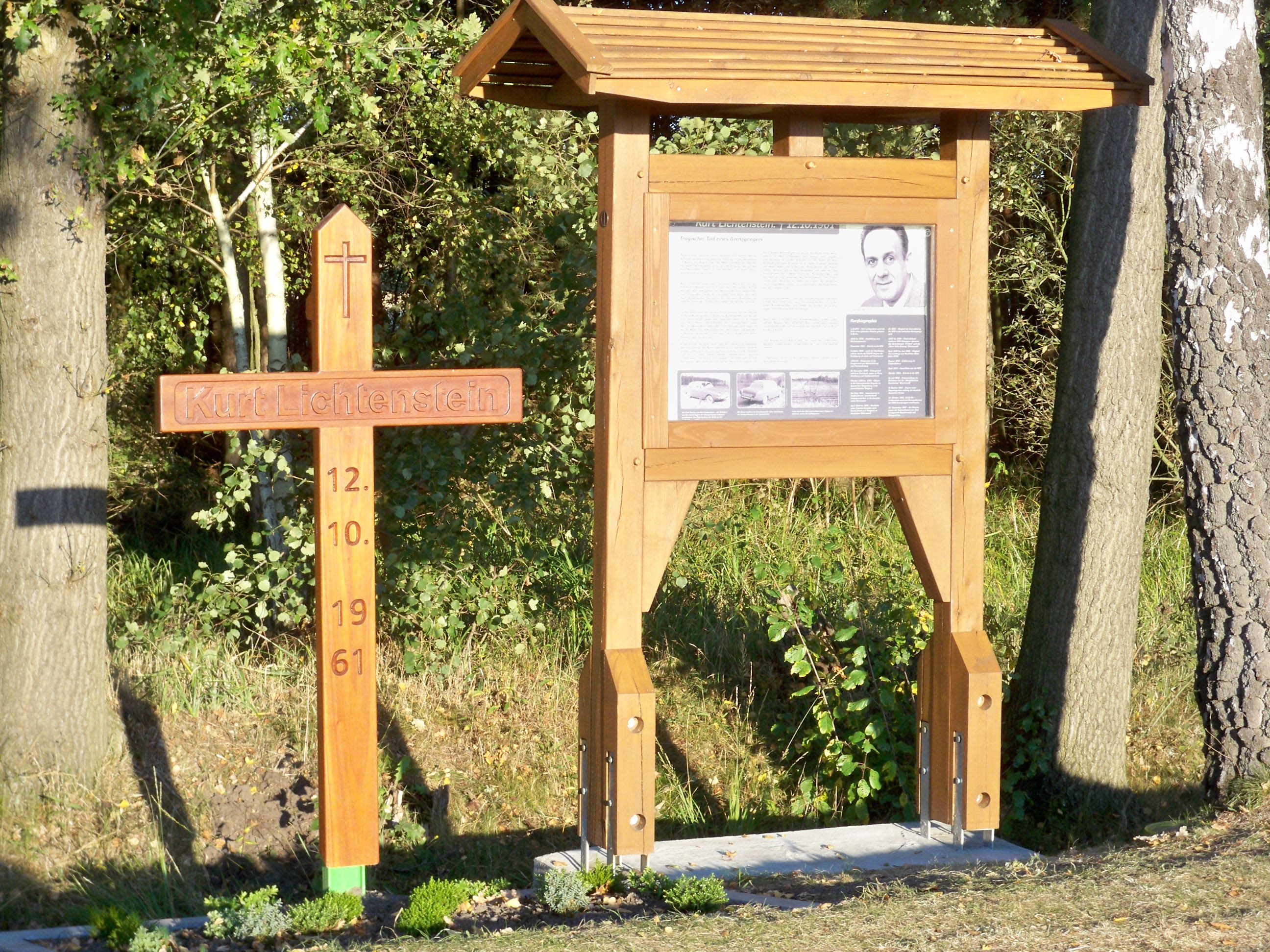 Zicherie, Lower Saxony, former inner-German border, memorial site für Kurt Lichtenstein who was shot there in 1961 by East German troops and died the same day; erected in September, 2011; official inauguration on 3rd October, 2011